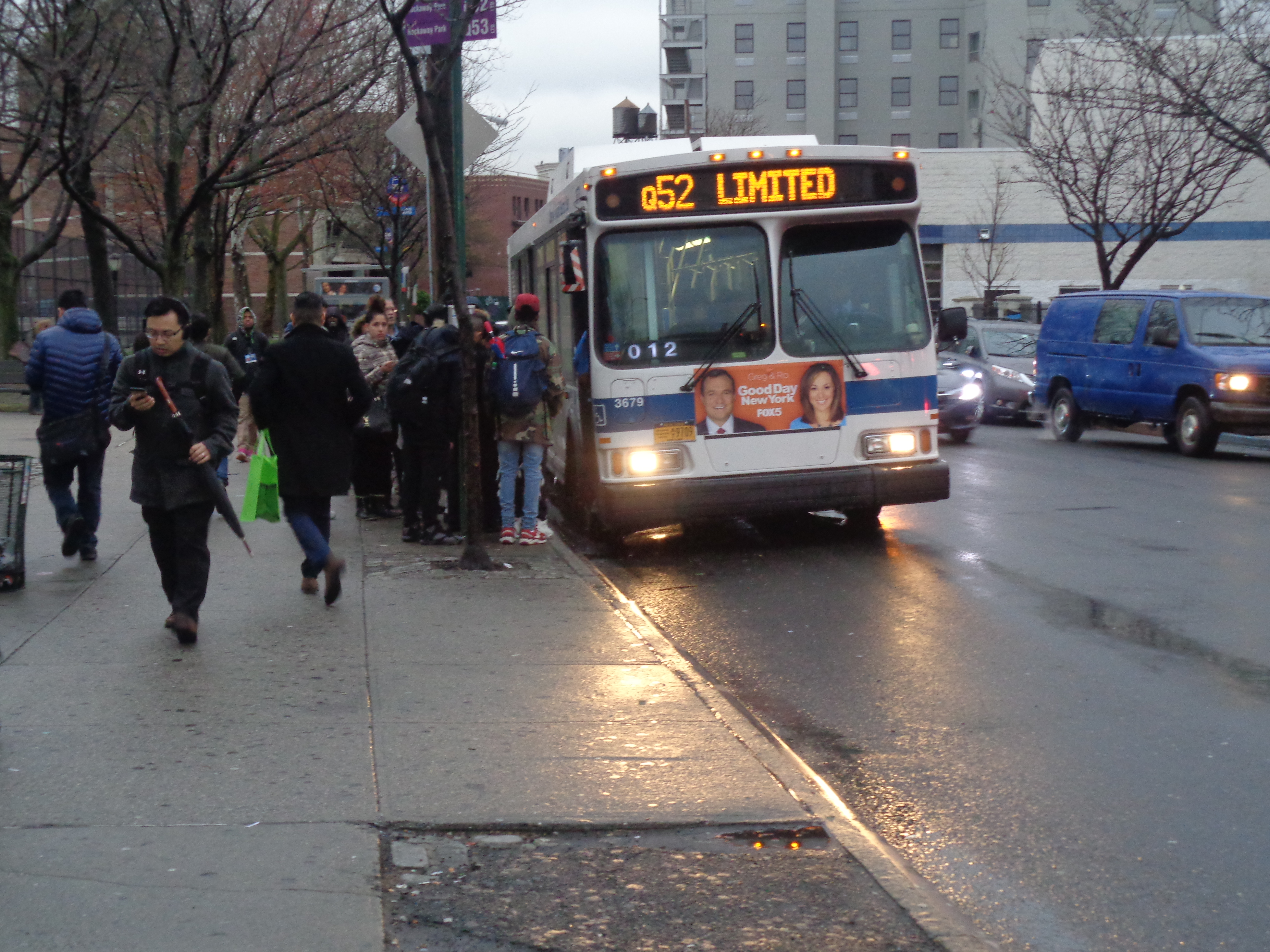 A Arverne-bound Q52 Limited bus at Hoffman Drive near Queens Center in Elmhurst, Queens.